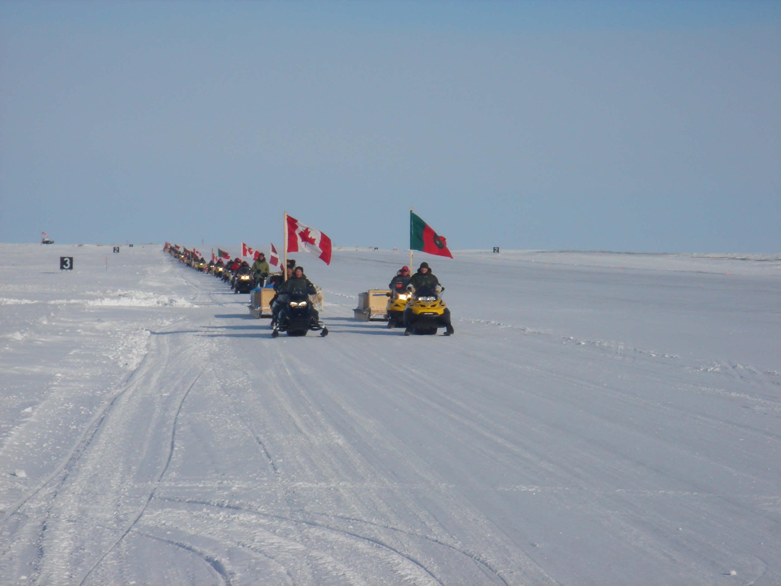 Arctic ranger training exercise